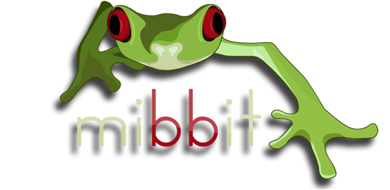 Official Mibbit logo